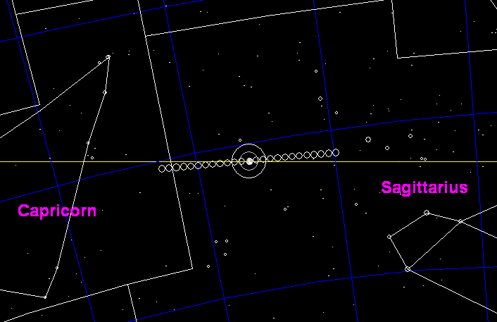 July 2000 lunar eclipse chart The position of the moon (and earth's shadow) are shown as viewed from center of earth. A small parallax effect occurs from specific location on surface of the earth. The yellow line is the plane of the ecliptic (path of the sun through the sky, and hence the center of the earth's shadow) The two concentric circles centered on this line show the extent of the umbra and penumbra, the zones of full and partial shadow, respectively, for an object in the moon's orbit. The moon is drawn at maximum eclipse, and circles for every hour interval of motion. thumb